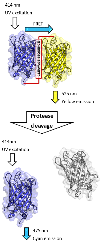 If the linker is intact, excitation at the absorbance wavelength of CFP (414nm) causes emission by YFP (525nm) due to FRET. If the linker is cleaved by a protease, FRET is abolished and emission is at the CFP wavelength (425nm).